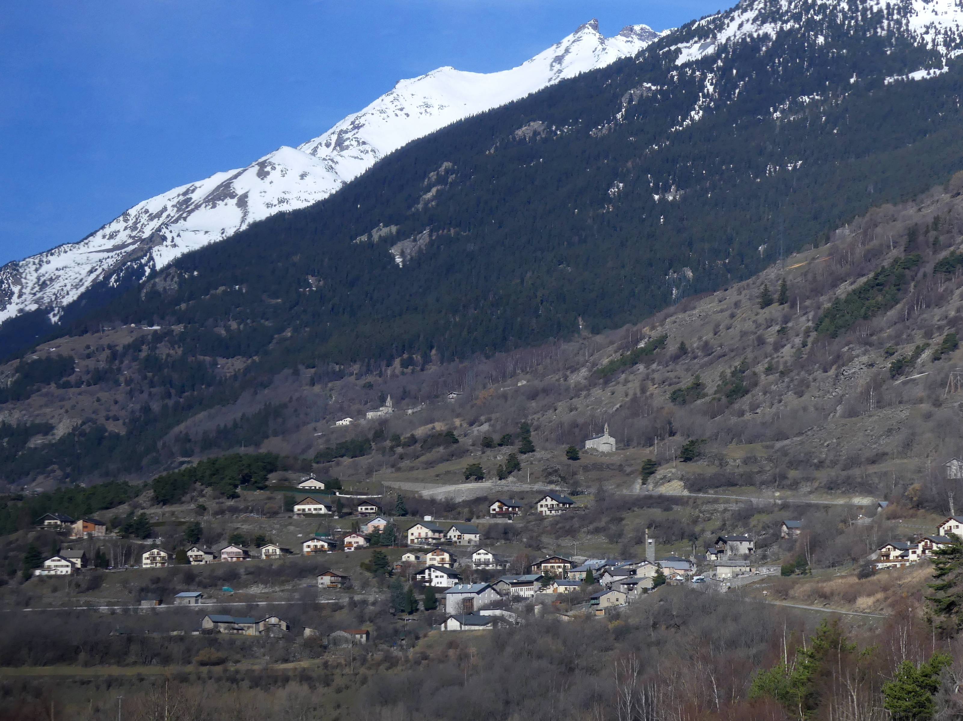 Sight, in a winter morning, of Saint-André locality in the Maurienne valley, Savoie, France.